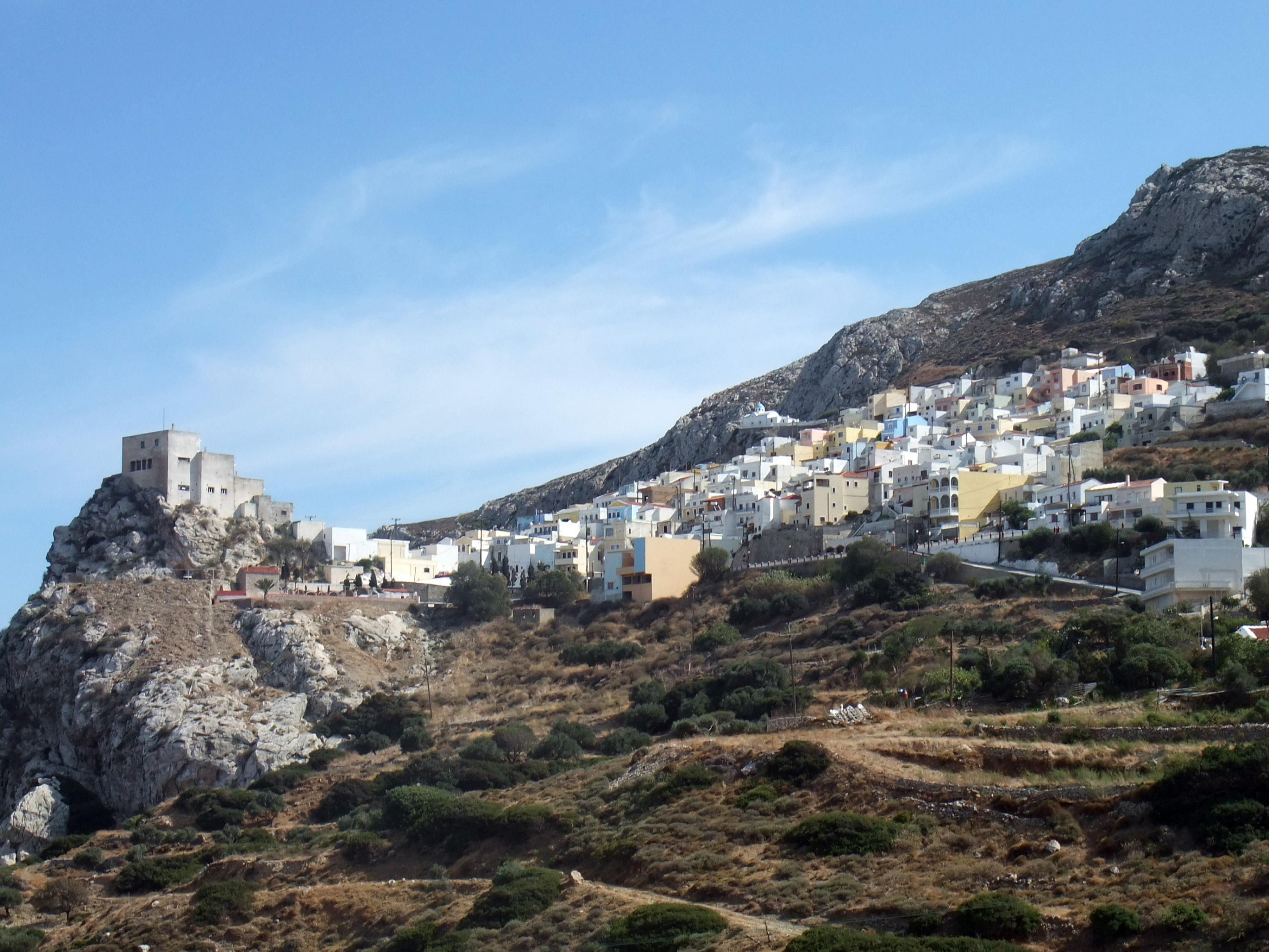 View of Menetés (Karpathos, Greece)